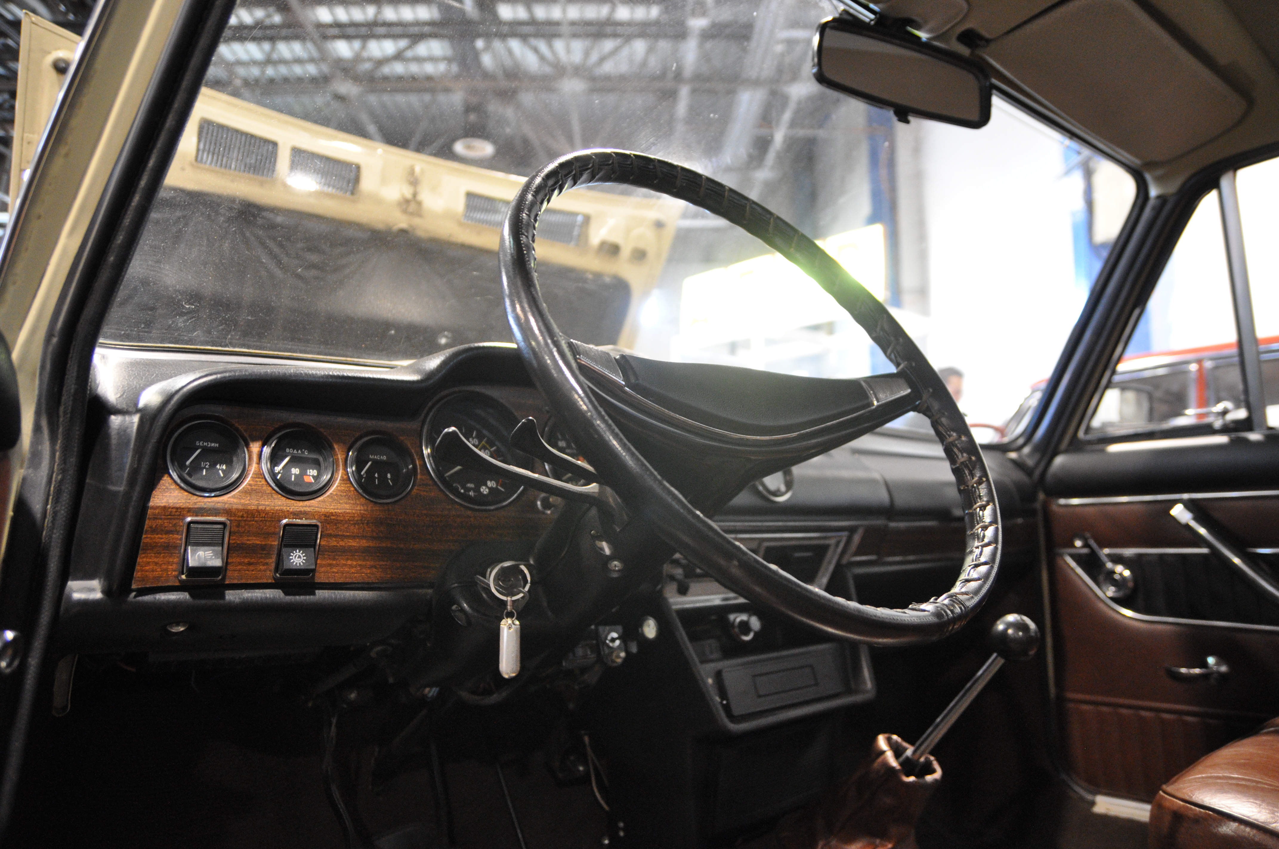 Budapest, Hungexpo, Automobil and Tuning Show 2017